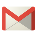 Logo of Gmail